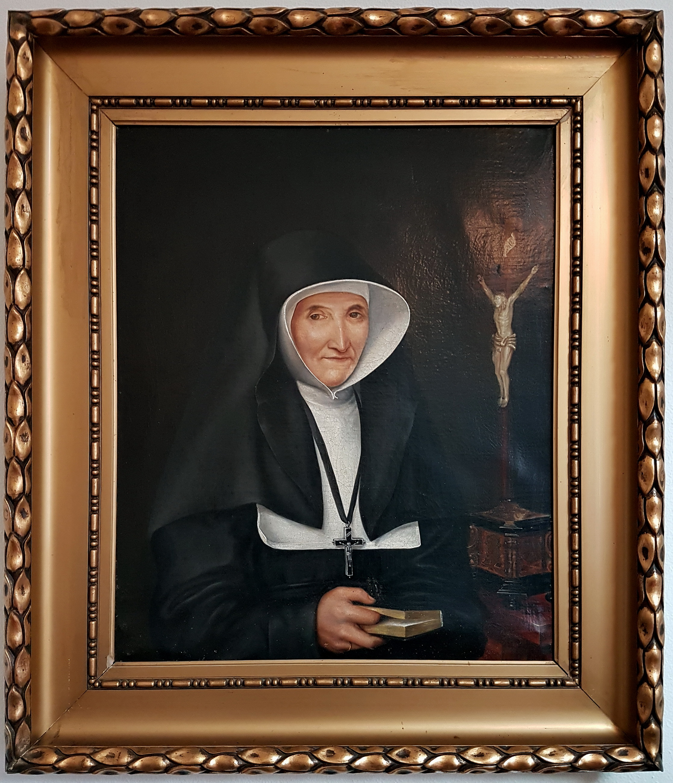 Convent of the Sisters of Mercy of St. Borromeo (Zusters Onder de Bogen) in Maastricht, the Netherlands. Interior of a museum room in the former provostry of Saint Servatius. In 1845 this building became the convent of the Sisters of Mercy of St. Borromeo and in 1864 this is where the congregation's foundress, Elisabeth Gruyters, died. The objects in these rooms are connected to Mother Elisabeth and the history of the congregation. This is a painting of her.